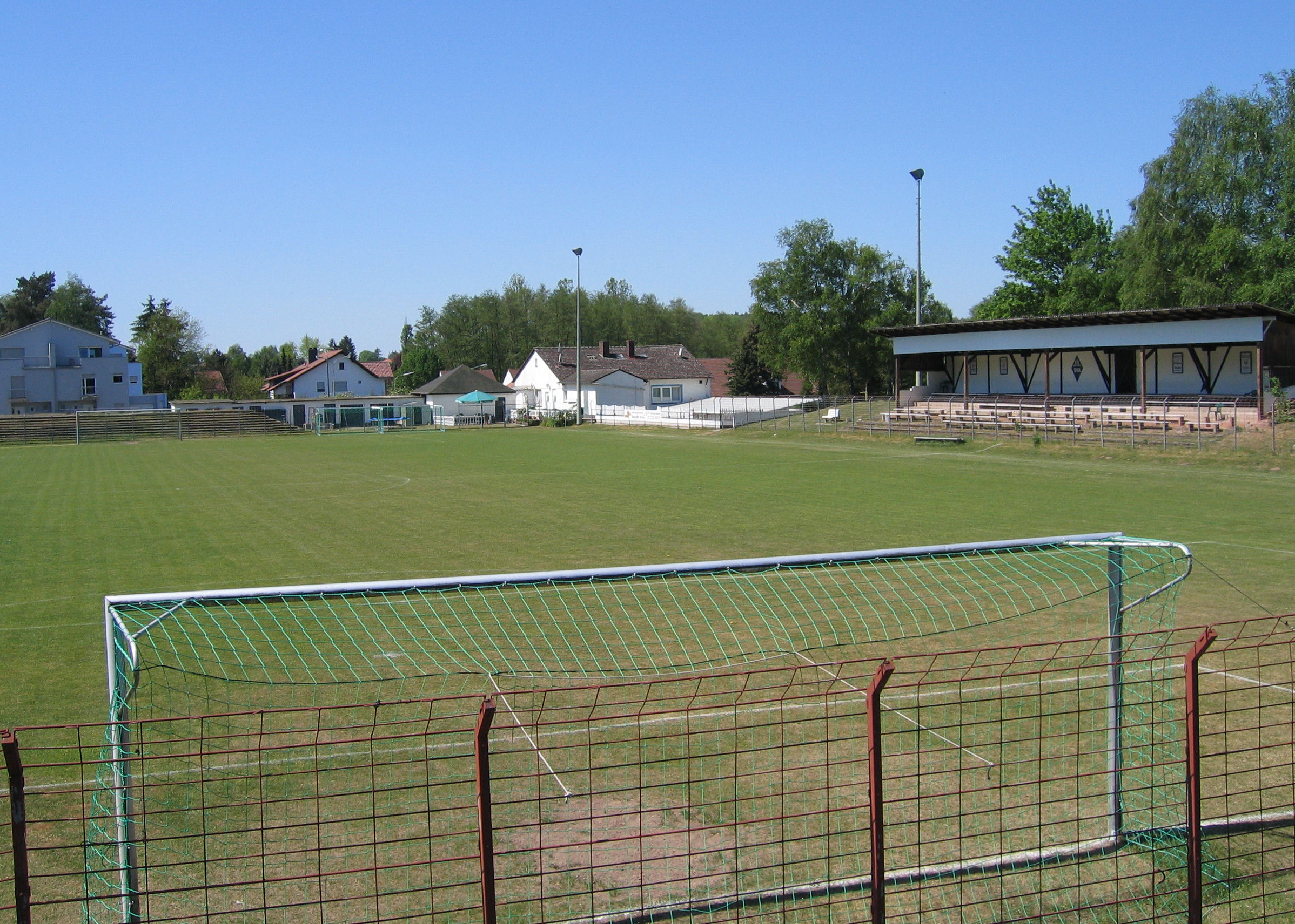 view of Alsenborn, Germany